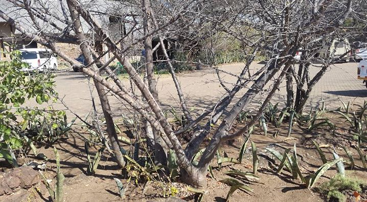 Sterculia rogersii - Mopane Camp, Kruger National Park, South Africa